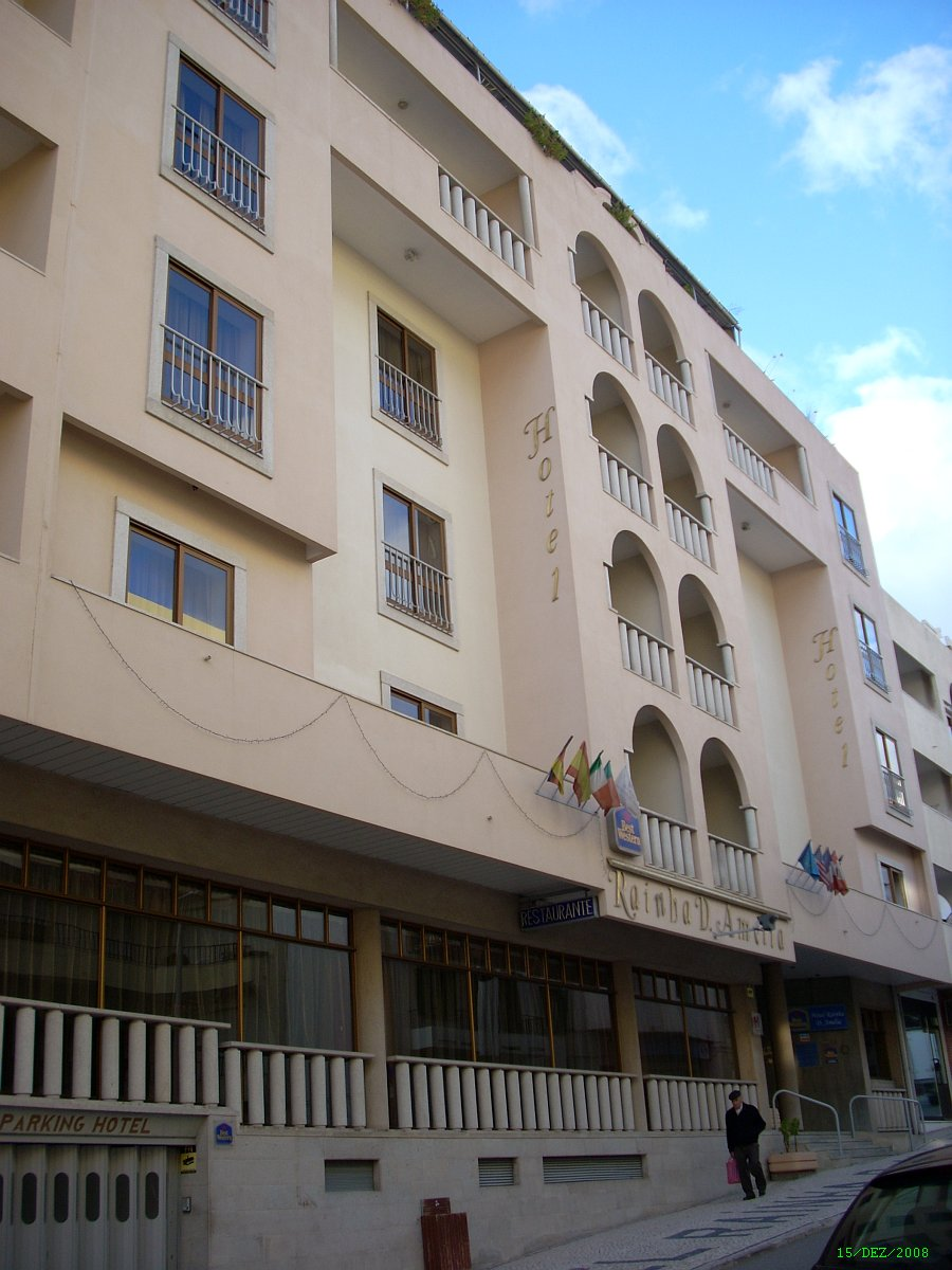 Hotel "Rainha D. Amélia" in Castelo Branco (3 stars)